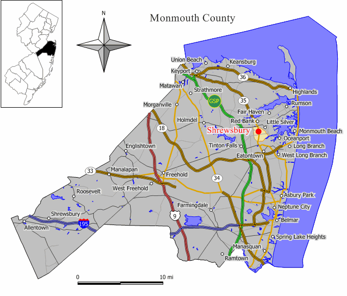 Source: Jim Irwin